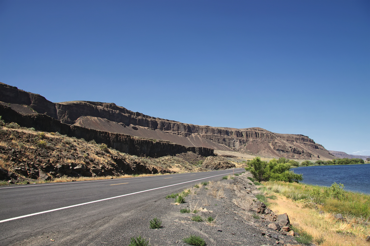 Alkali Lake is located along Washington State Route 17, USA.